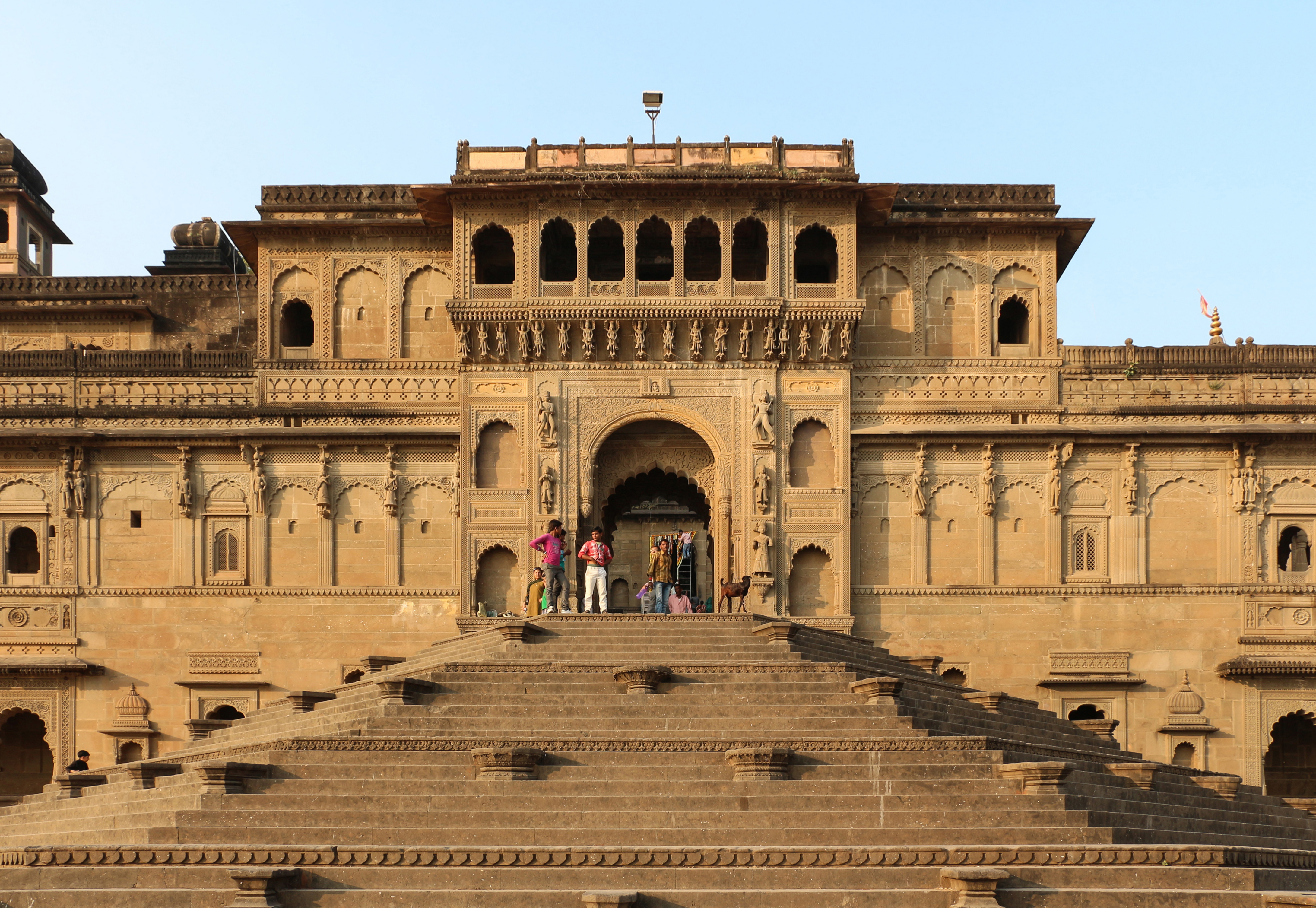 South entrance of Maheshwar Fort, Maheshwar, Madhya Pradesh, India